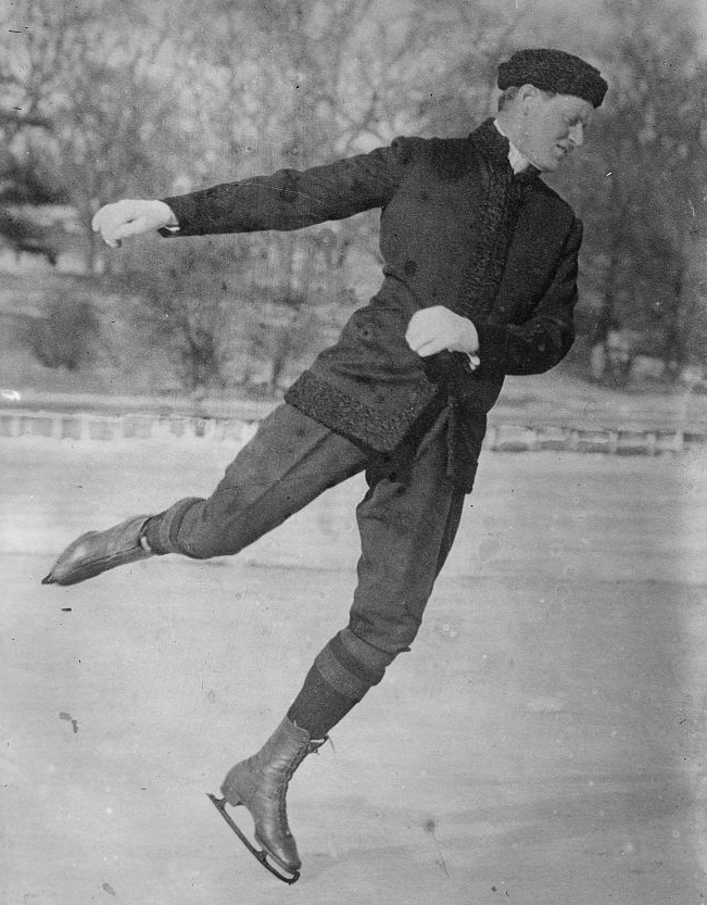 Isaac Irving Brokaw (March 29, 1871 – March 18, 1939) was an American figure skater, artist, lawyer, and financier. He represented the United States at the 1908 Summer Olympics in the figure skating competition, becoming the first American to compete in a sport included in the Winter Olympic program. Bain News Service,, publisher. Irving Brokaw -- ice-skating [between ca. 1910 and ca. 1915] 1 negative : glass ; 5 x 7 in. or smaller. Notes: Title from unverified data provided by the Bain News Service on the negatives or caption cards. Forms part of: George Grantham Bain Collection (Library of Congress). Format: Glass negatives. Repository: Library of Congress, Prints and Photographs Division, Washington, D.C. 20540 USA, General information about the Bain Collection is available at Persistent URL: Call Number: LC-B2- 3010-11 This photograph also appears in The Art of Skating by Irving Brokaw, 1915 edition published by American Sports Publishing Company, New York (page 81), as one of a set of four images captioned "Free Skating - Pirouettes".